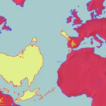 This map of Europe is overlaid with a map showing the antipodes of each point.